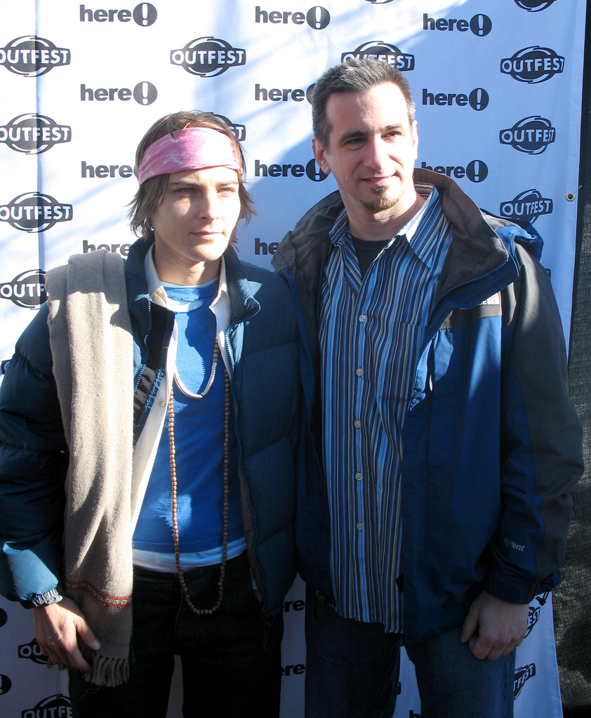 Daniela Sea and Neil G. Giuliano, president of GLAAD at the Sundance film festival.